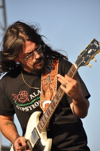 Shooter Jennings performing at San Diego Street Scene Festival